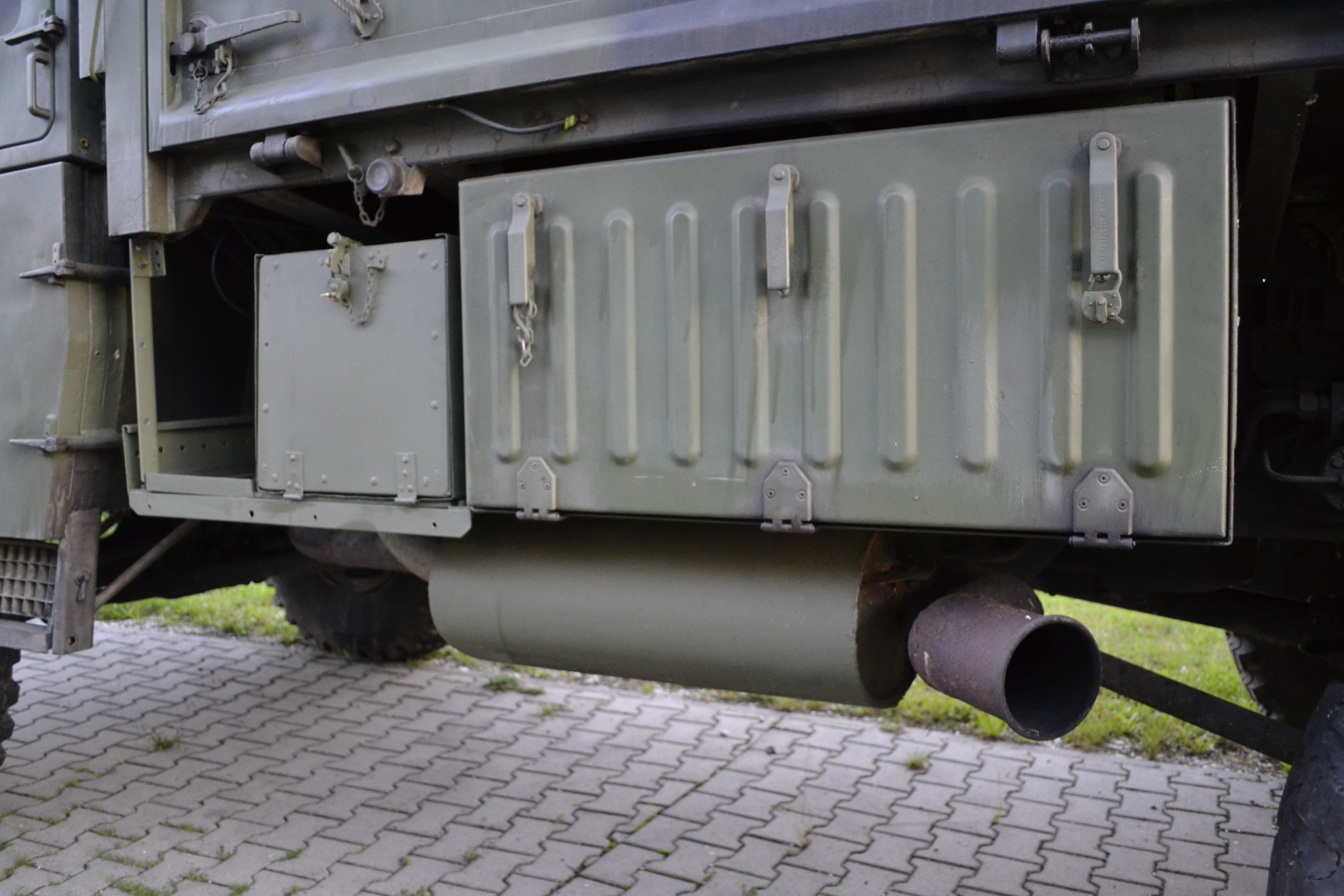 The exhaust system of a MAN gl (6×6) truck.